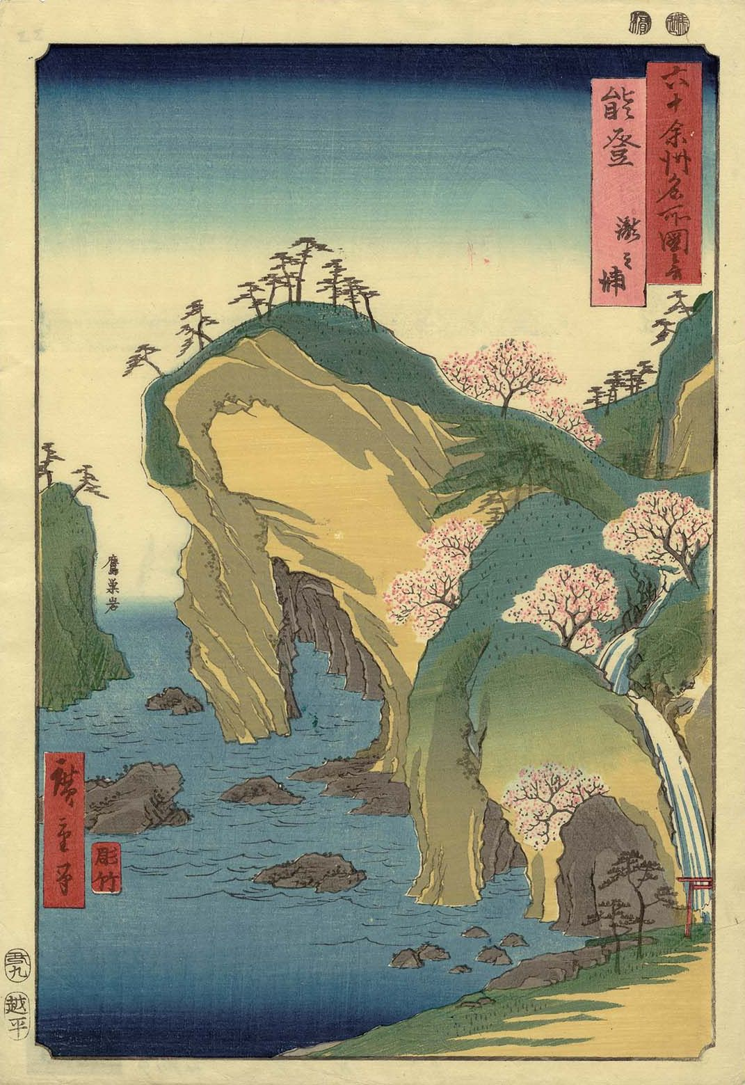 Part of the series Famous Places in the Sixty-odd Provinces, No. 33 (Hokurikudō group)